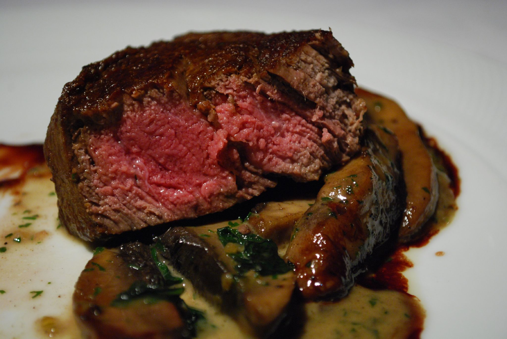 Julia wanted her steak medium-rare, but was a little overdone, but still moist, tenderm and full of beefy flavour. Sitting beneath it were the juiciest, tasties field mushrooms we had ever had. All this was flavoured with a sweetish merlot sauce and a confit of shallot that gave it an oniony zing.